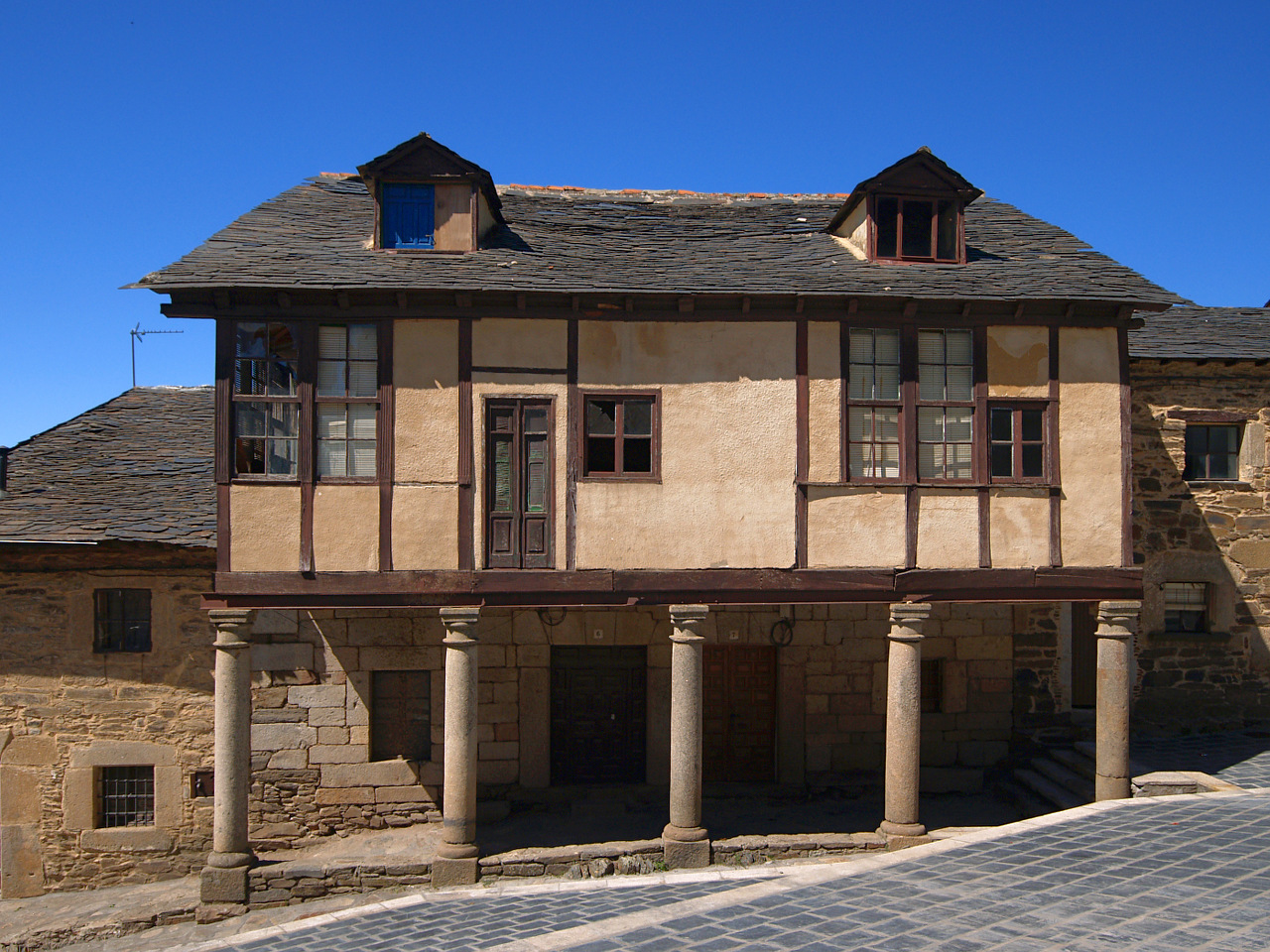 Puebla de Sanabria